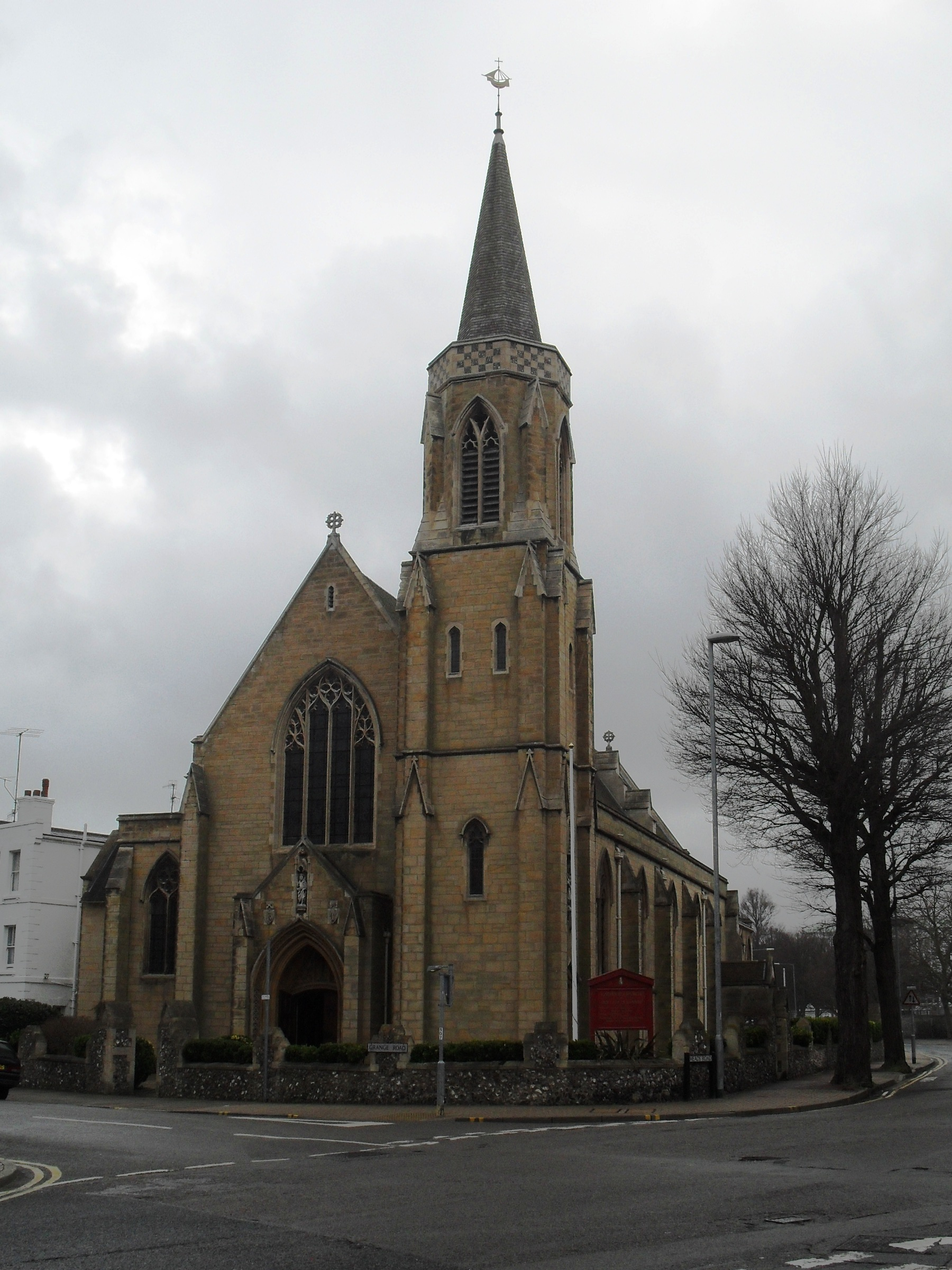 Roman Catholic church of Our Lady of Ransom, Grove Road, Eastbourne, East Sussex, England. Designed by FA Walters and built 1890–1903.